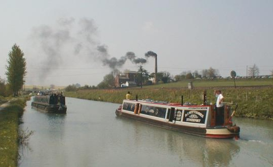 The Kennet and Avon Canal at Crofton Locks, Great Bedwyn, Wiltshire, England.. The buildings in the distance are the Crofton Pumping Station which houses the beam pumping engines that used to keep the canal fed with water. They have been preserved and are operated several times a year for visitors. The smoke shows the boilers are being stoked up for a day's work!